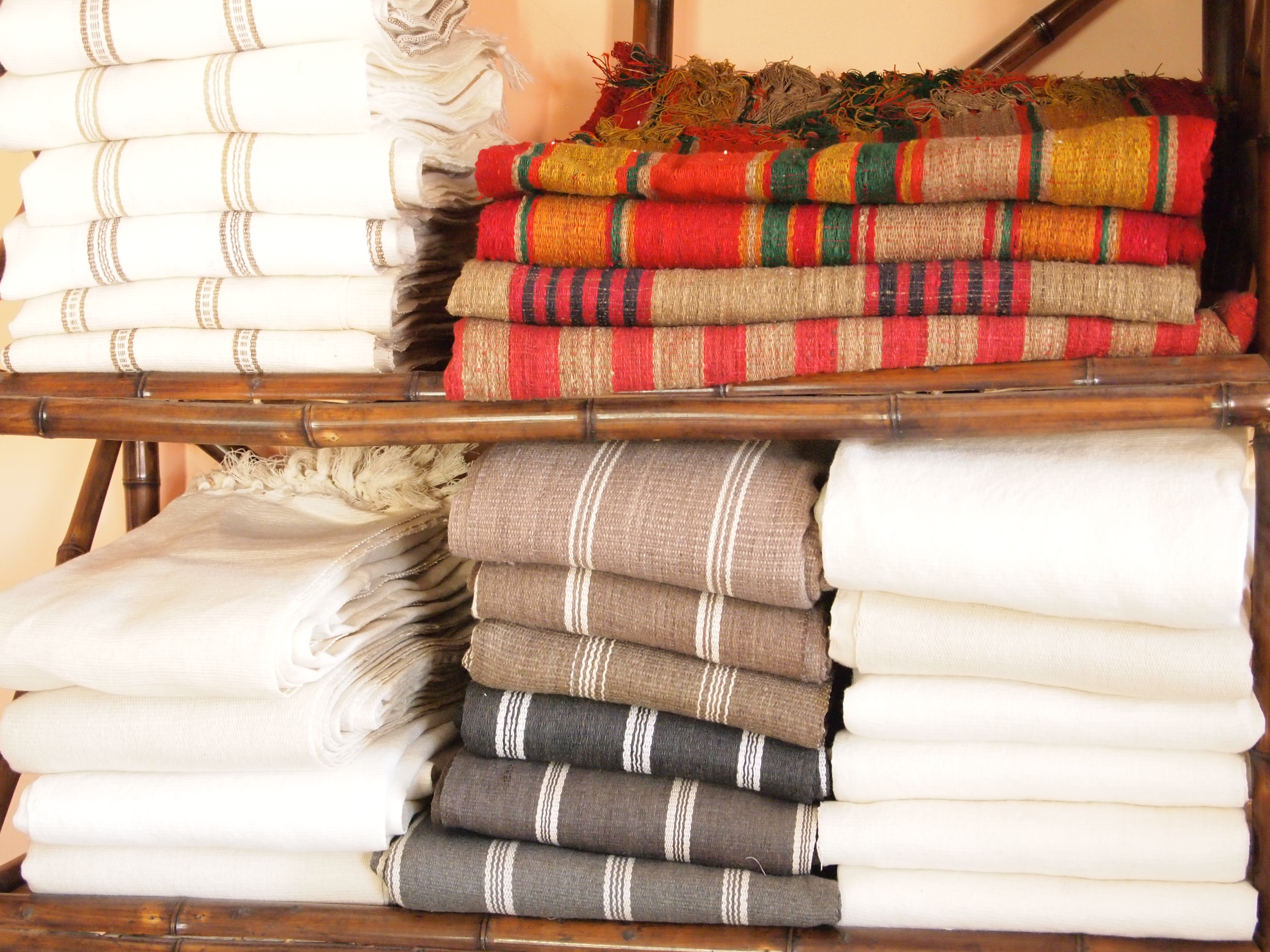 Madagascar lambas in shop